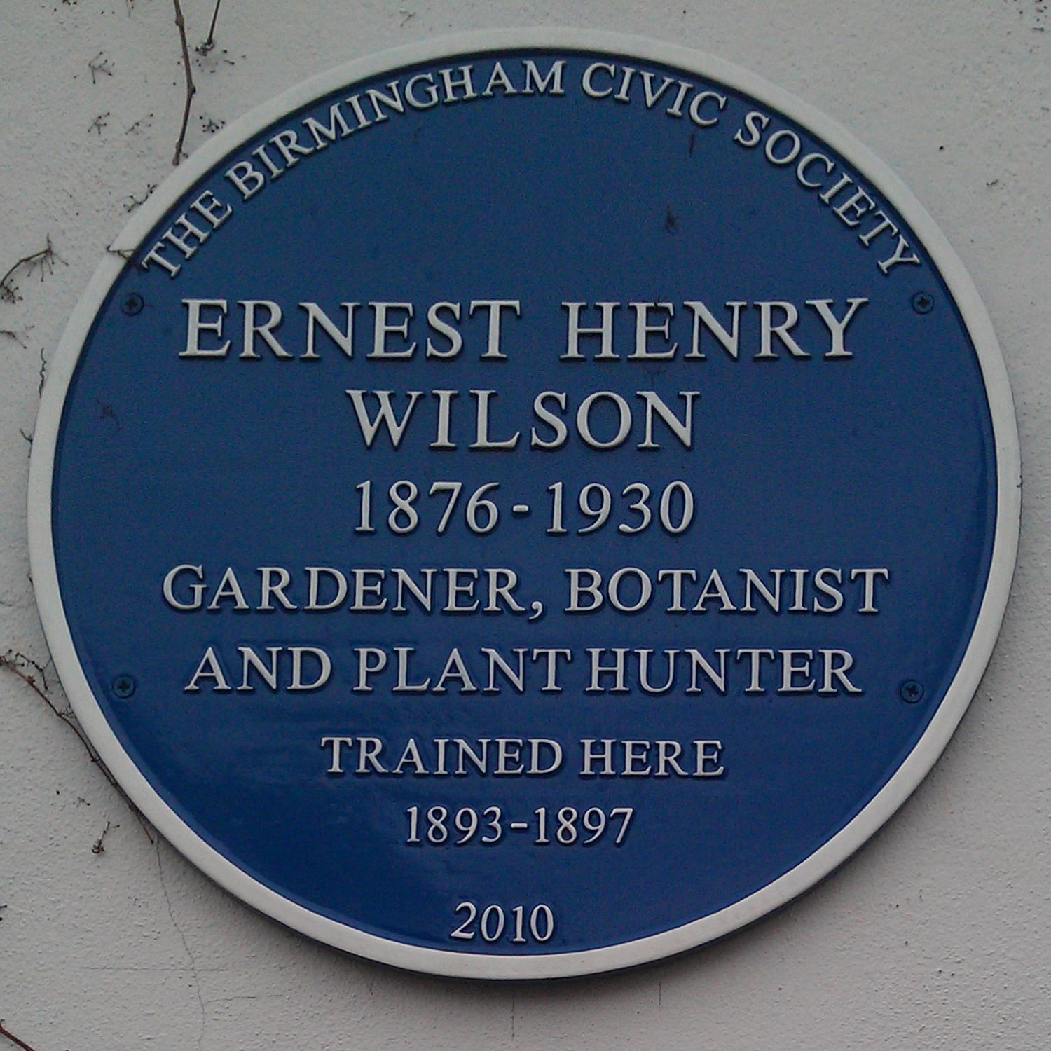 Blue plaque honouring Ernest Henry Wilson, erected in May 2010 at Birmingham Botanical Gardens. See File:Erenst H Wilson blue plaque + Bham Botanical Gardens.jpg for wider view.